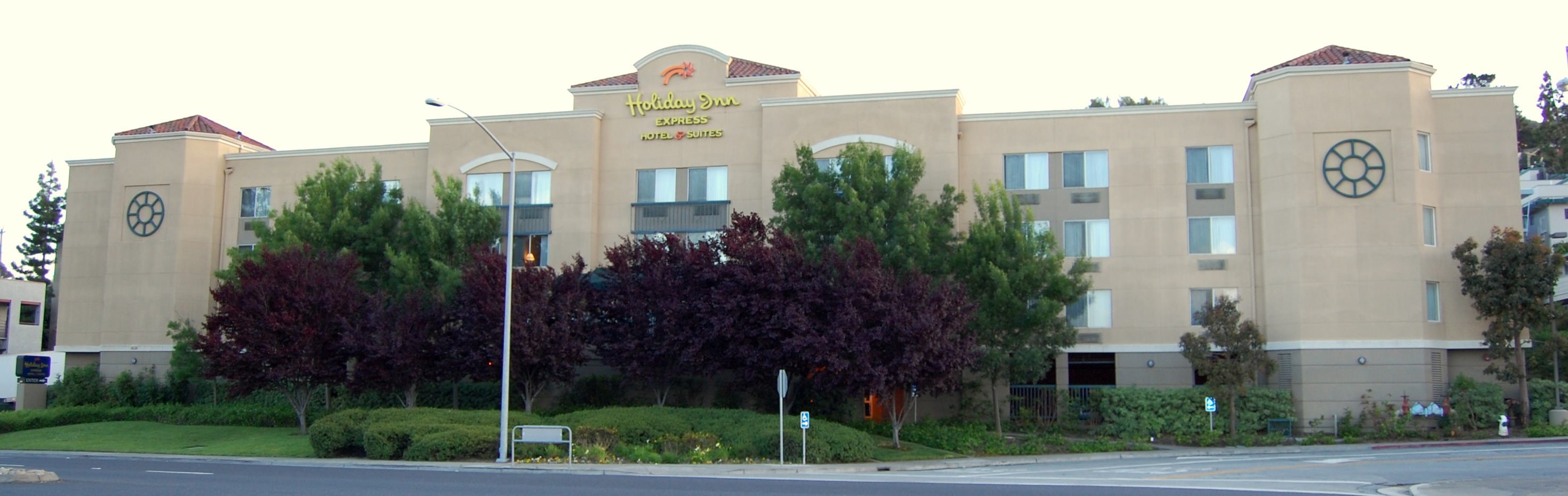 "Holiday Inn" hotel in Belmont, California, USA